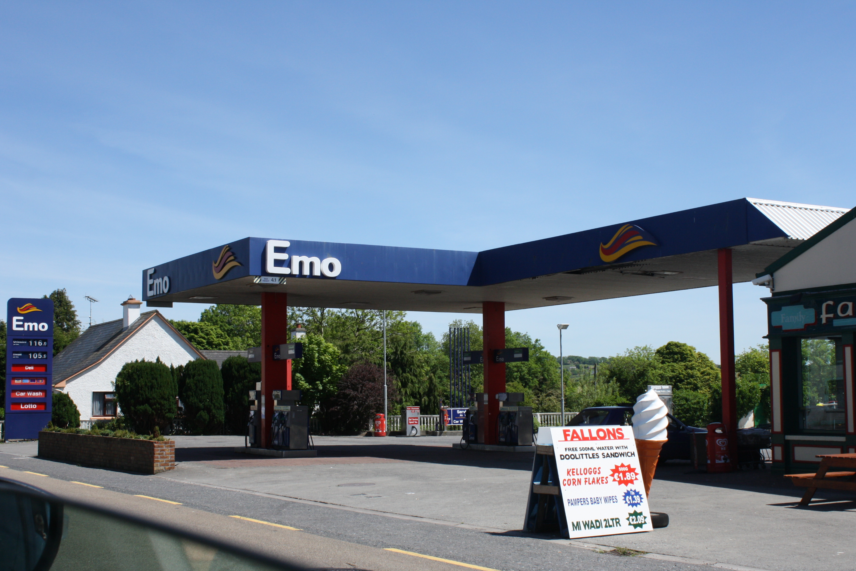 An Emo gas station near Sligo, Ireland, at the N17.